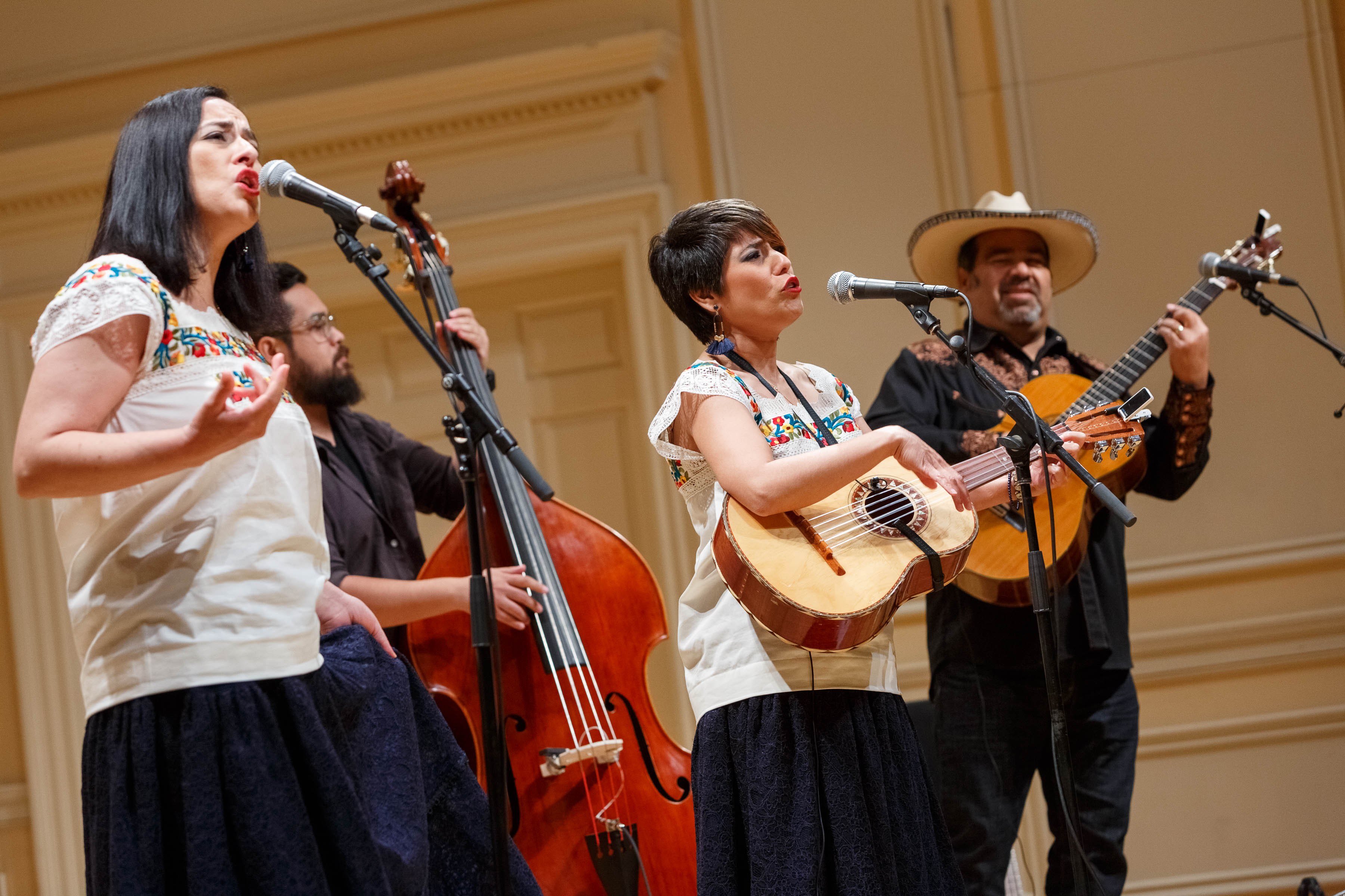 Los Cenzontles performs Mexican American music from California during the Homegrown Concert Series in the Coolidge Auditorium, June 25, 2019. Photo by Shawn Miller/Library of Congress. Note: Privacy and publicity rights for individuals depicted may apply.